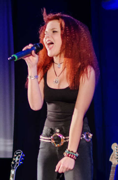 German singer and songwriter Carlotta Truman performing in concert.